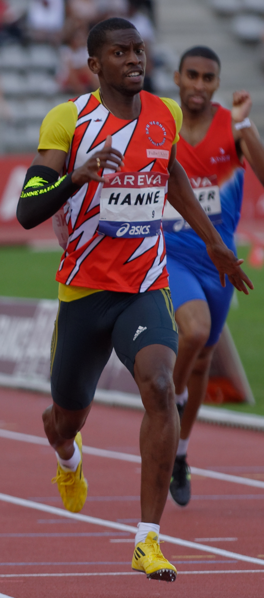 Mame-Ibra Anne runs to win the men's 400-metre race in 46″05 during the French Athletics Championships 2013 at Stade Charléty in Paris, 13 July 2013.